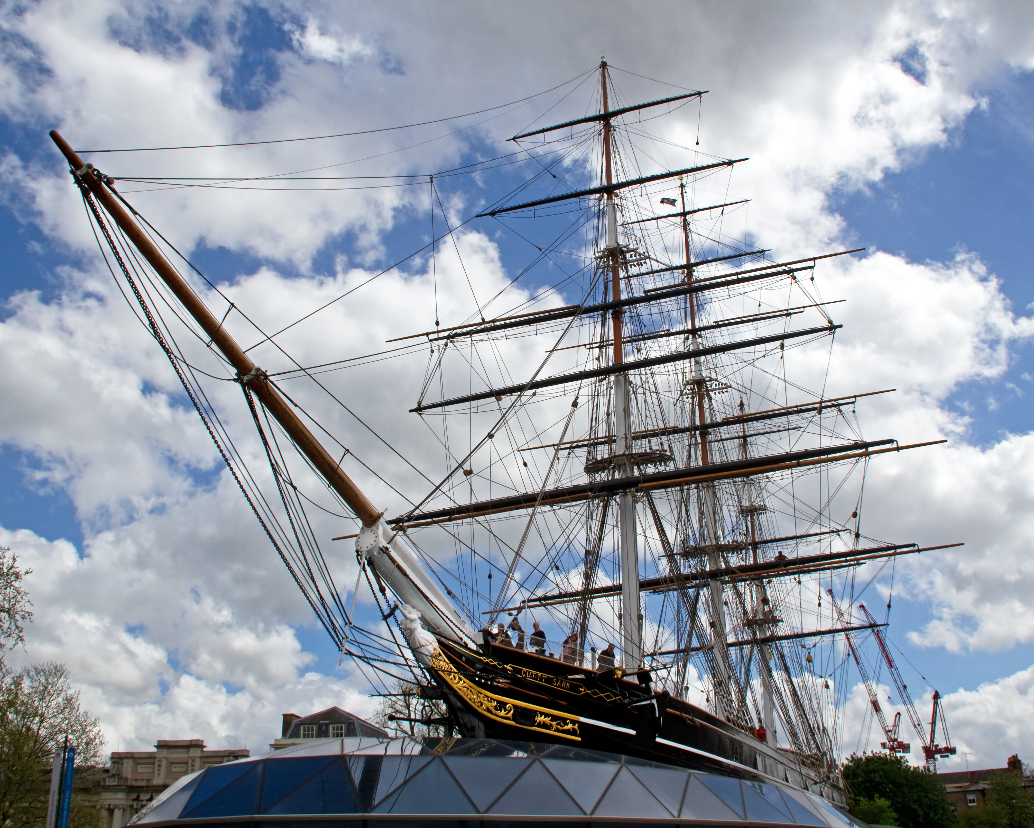 Cutty Sark 3